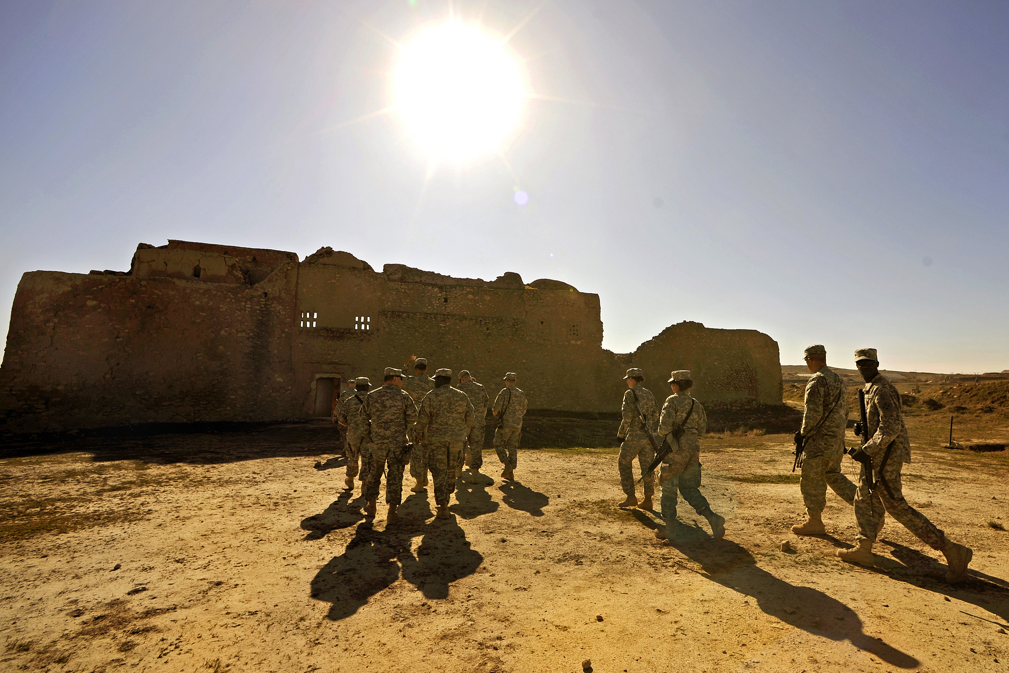 U.S. Army soldiers tour Saint Elijah's Monastery on Forward Operating Base Marez in Mosul, Iraq, Jan. 23, 2009. Saint Elijah's, a complex of buildings dating back to the 6th century, is the oldest Christian monastery in Iraq.